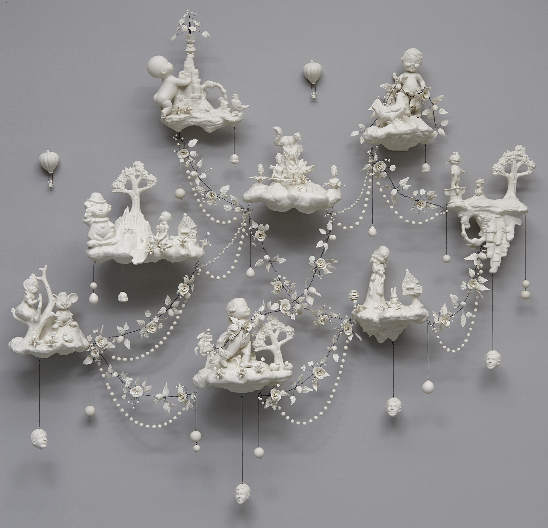 porcelain and wire